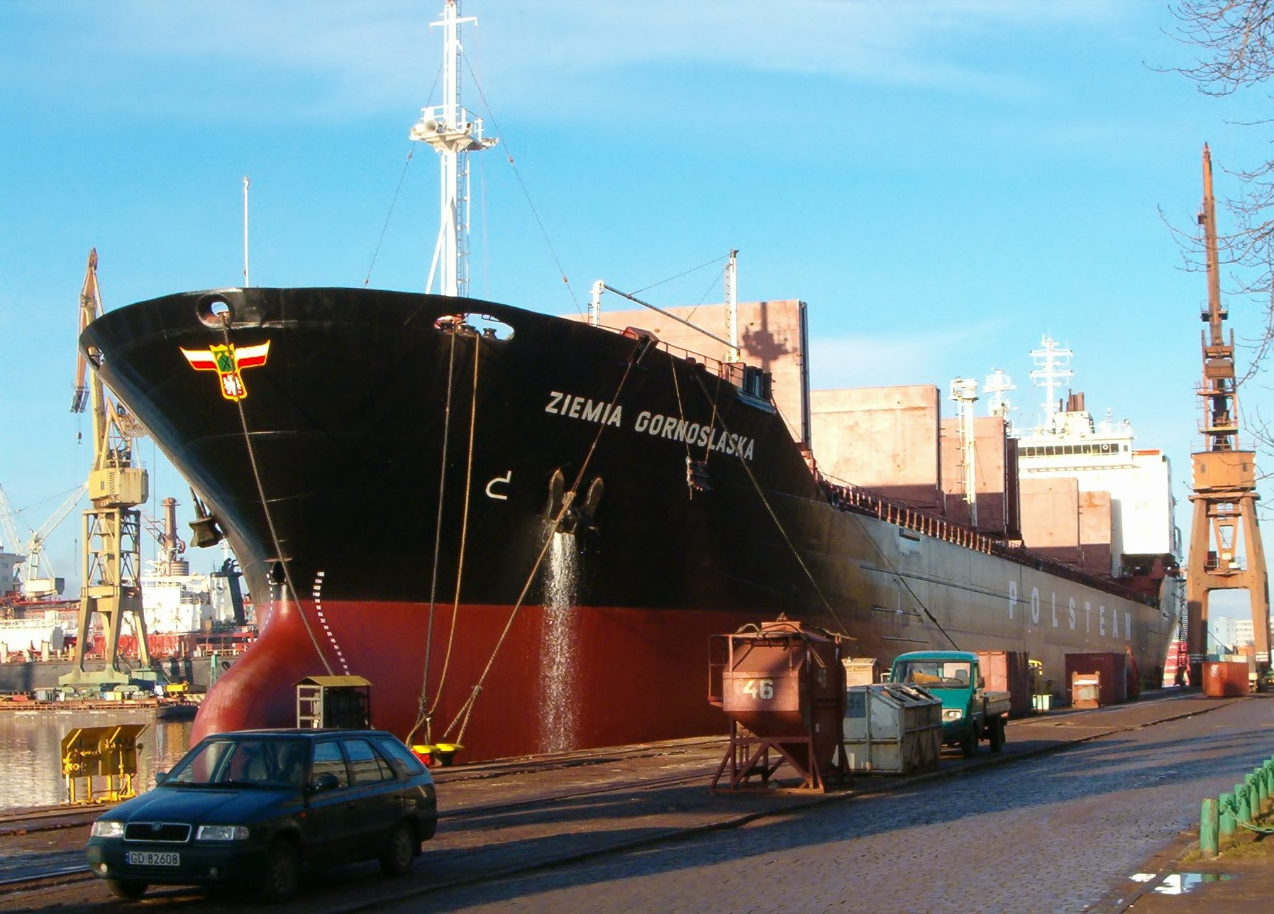 Ziemia Gornoslaska in Gdansk, Poland. IMO Number: 8418734 MMSI Number: 636012132 Callsign: A8DP3 Length: 180 m Beam: 23 m